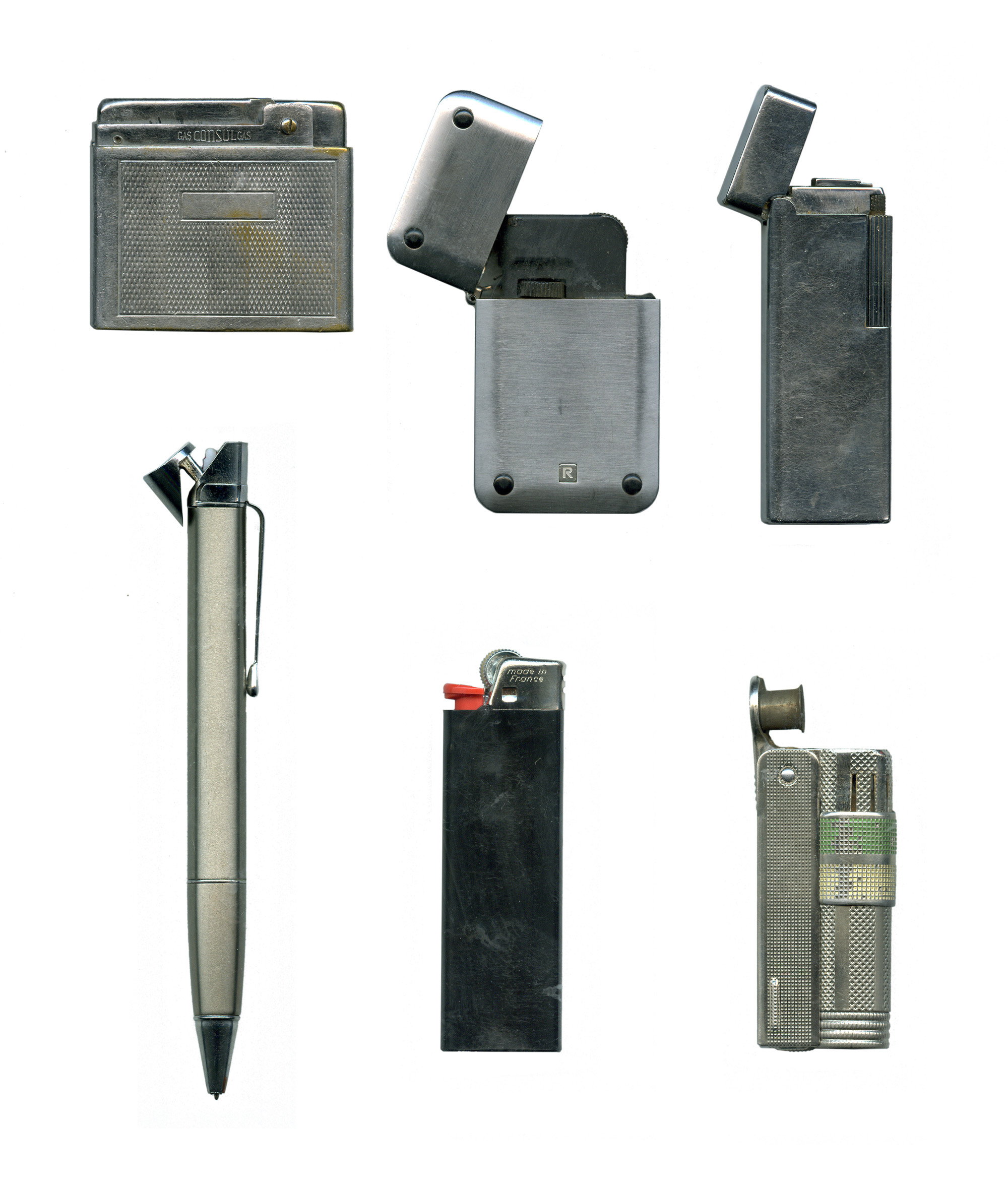 Various lighters